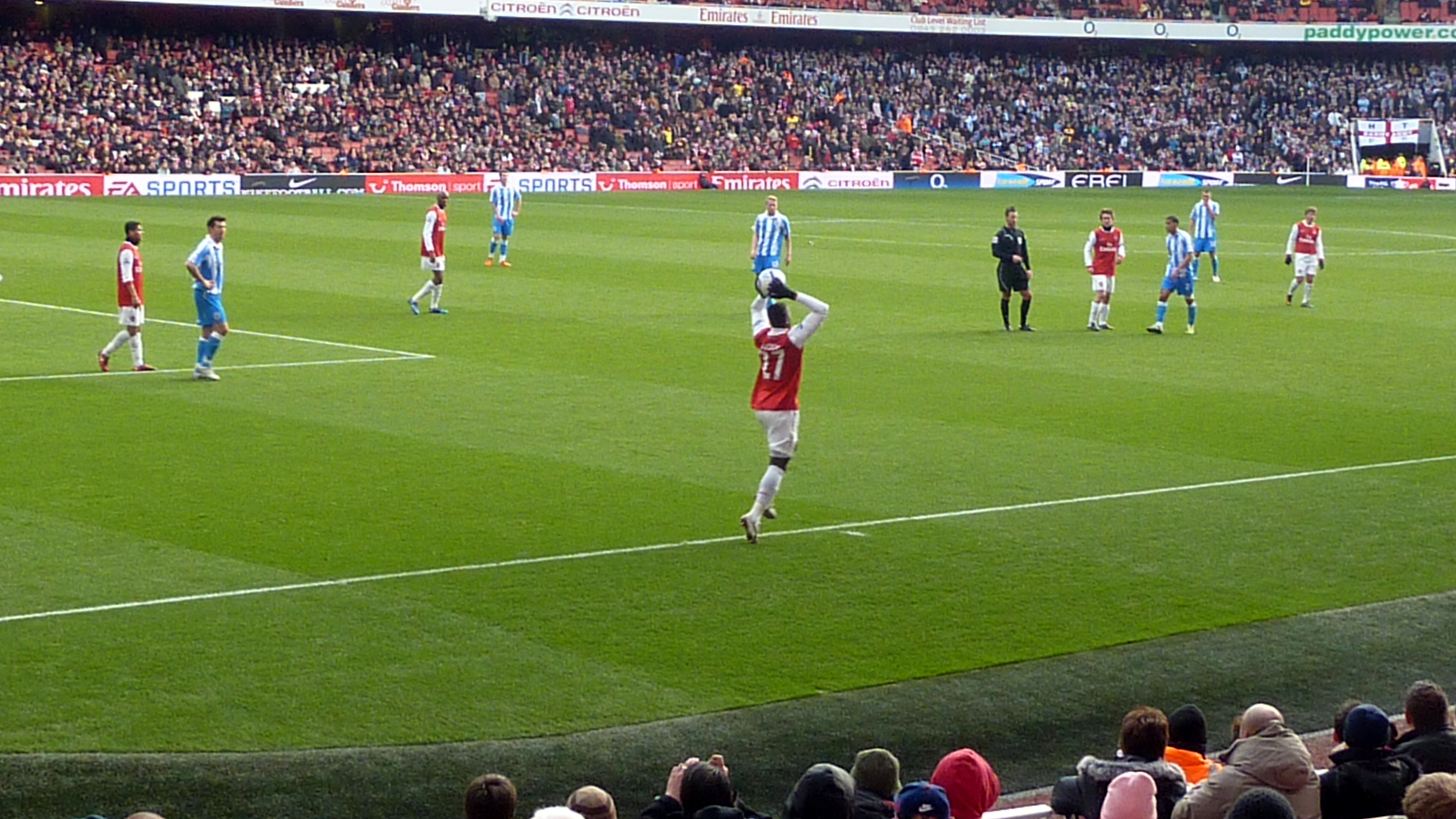 Player (with the ball in his hands) takes a throw-in from the touch line. Arsenal against Huddersfield at the Emirates stadium.